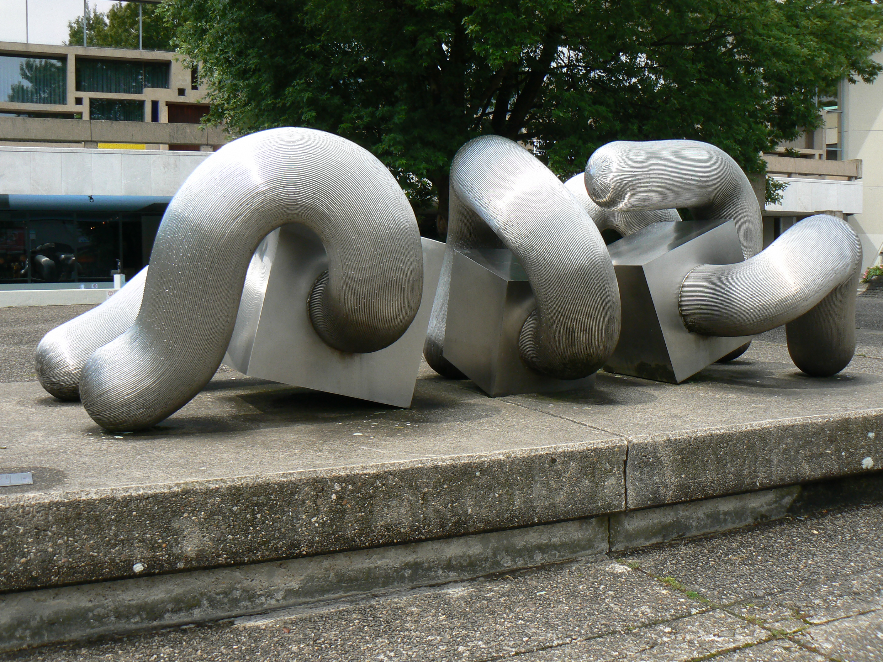 Location:City Center Marl/Germany Collection: Skulpturenmuseum Glaskasten Sculpture: Naturmaschine (1969) Sculptor: Matschinsky-Denninghoff